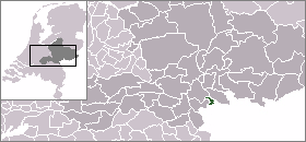 Locator map of Dutch municipalities in Gelderland (LocatieMillingenAanDeRijn.png)